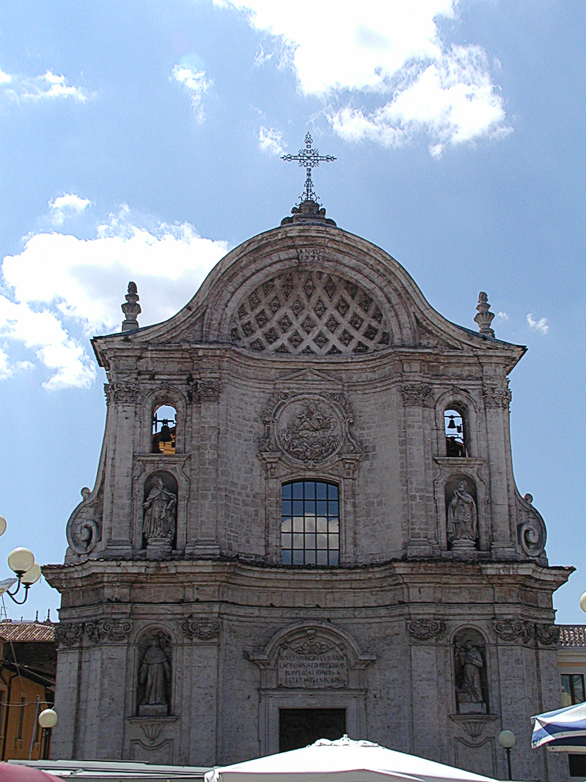 L'Aquila, Church of Holy Mary of the Suffrage (also called of the Holy Souls of Purgatory). West façade.